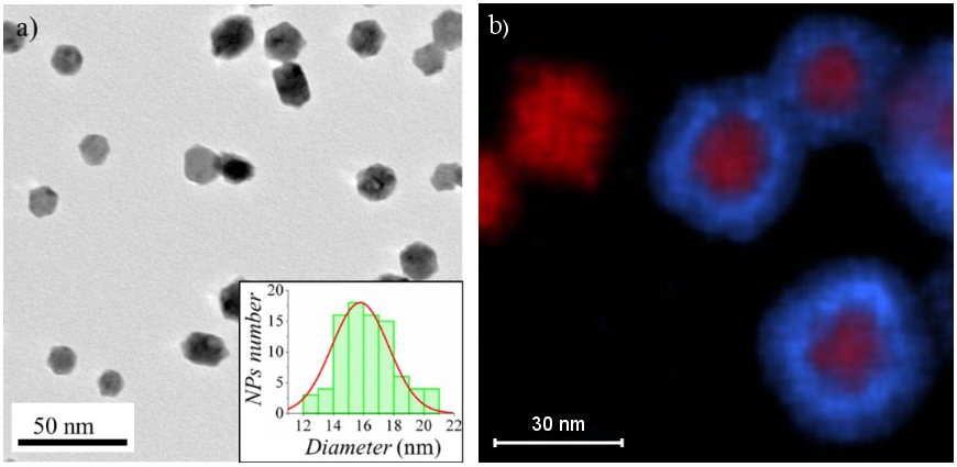 a) Transmission electron microscopy (TEM) image of Hf nanoparticles and b) energy dispersive x-ray (EDX) mapping of Ni and Ni@Cu core@shell nanoparticles (Adapted from Beilstein J. Nanotechnol. 2018, 9, 1868–1880 and Beilstein J. Nanotechnol. 2014, 5, 466–475)